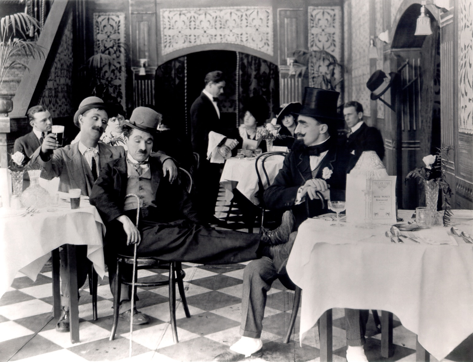 Scene from the Chaplin film A Night Out (1915).